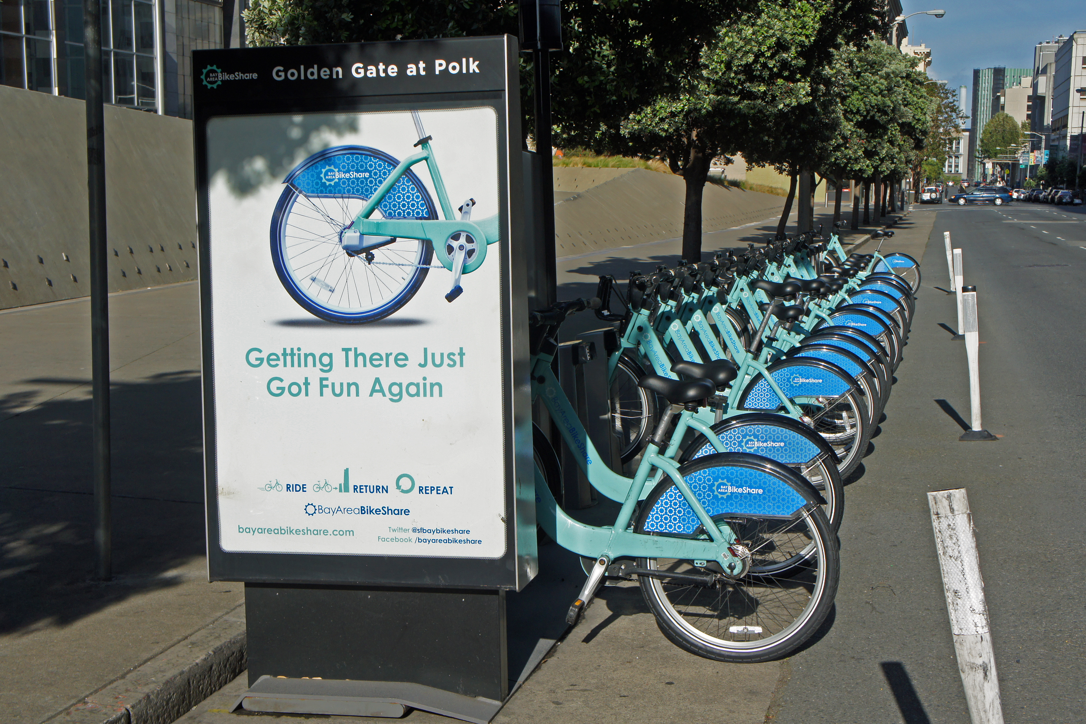 BayArea Bike Share docking station at Golden Gate & Polk